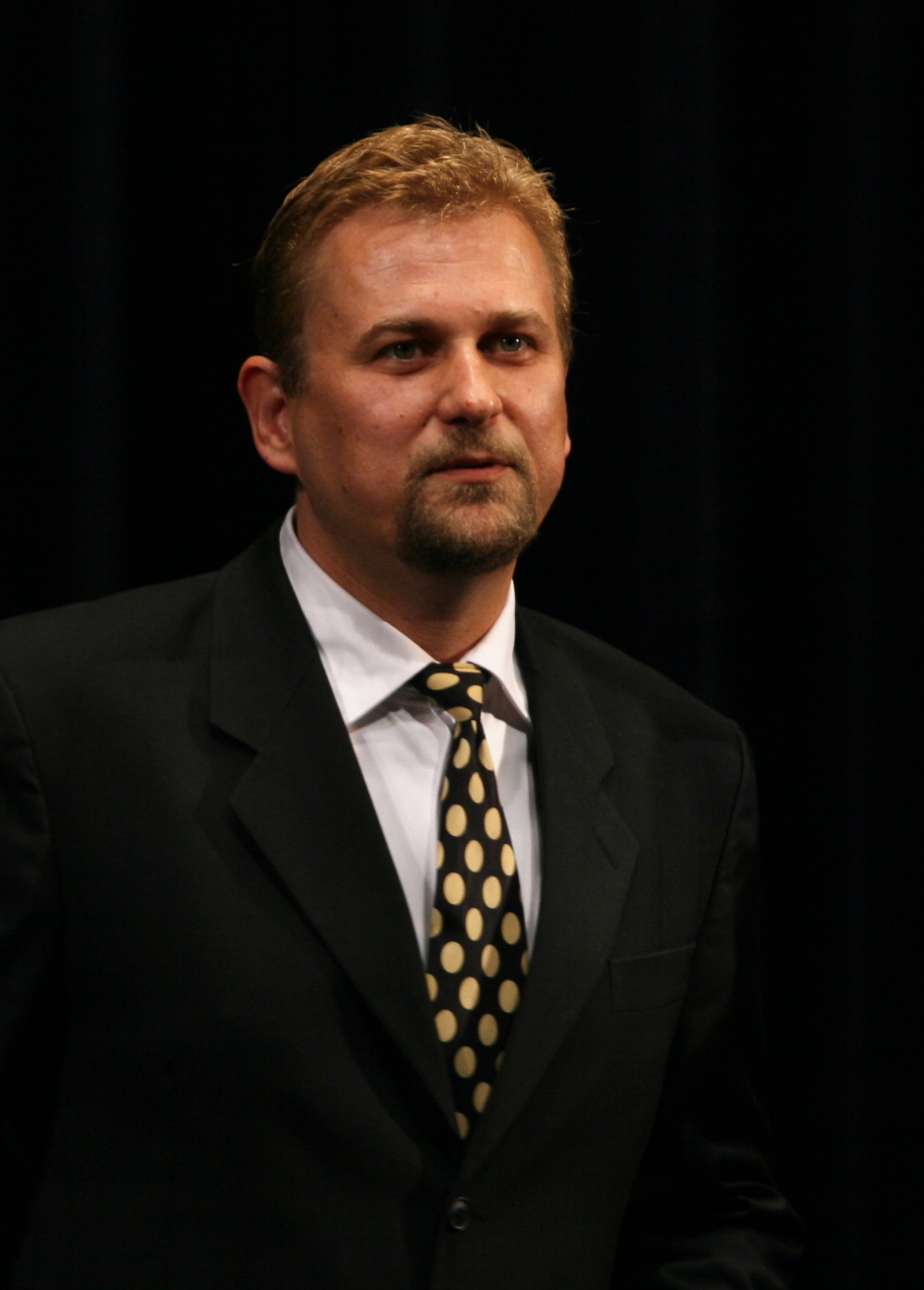 Hungarian actor Zsolt Anger at Karlovy Vary International Film Festival in 2008